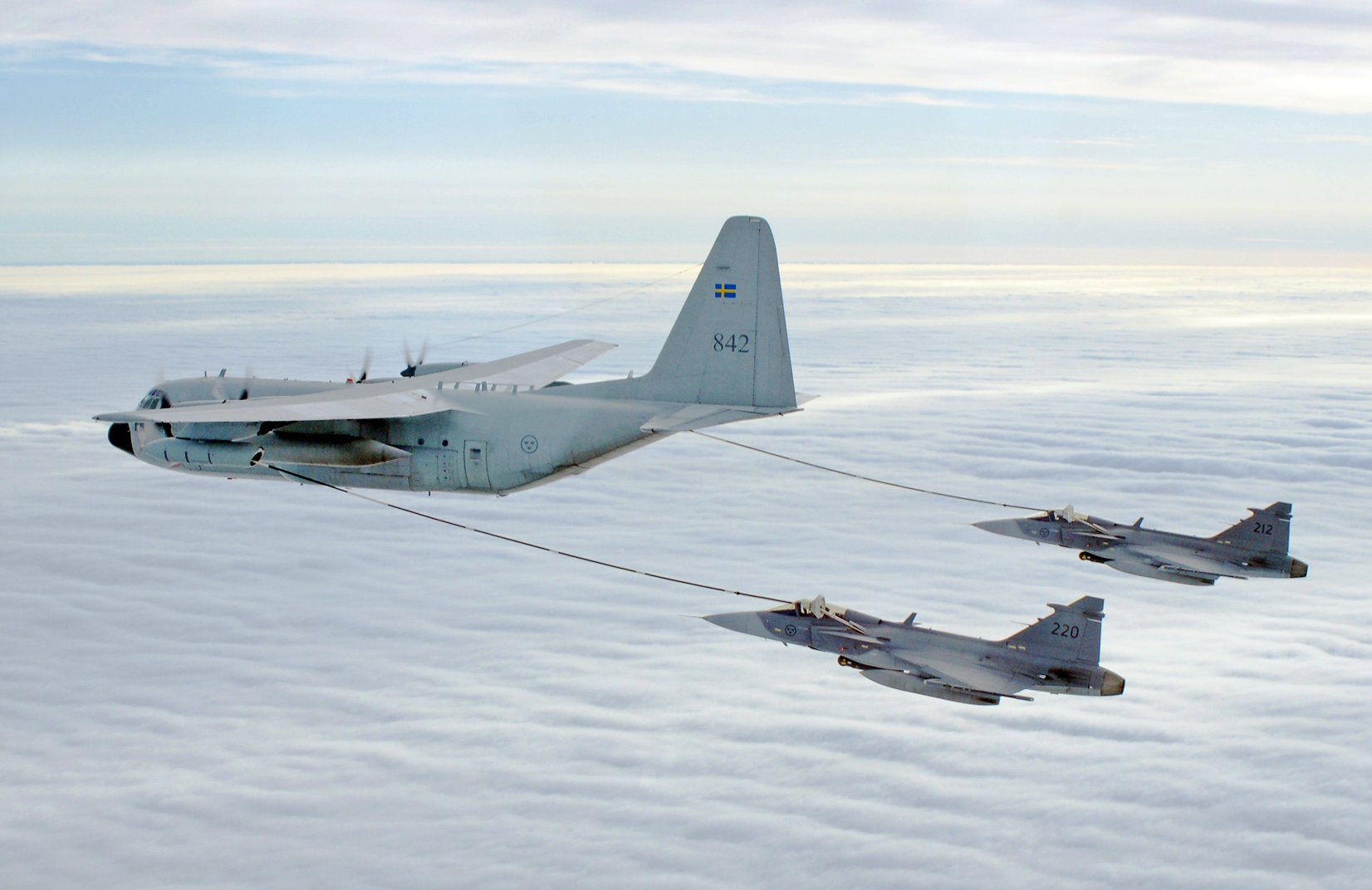 Saab JAS-39 of the Swedish Air Force undergoing inflight refuelling from a TP 84 Hercules